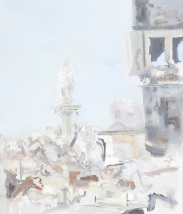 Painting by Uwe Wittwer 2005, «Ruin», oil on canvas, 70 x 60 cm. Photo by Kevin Mueller, workshop Uwe Wittwer